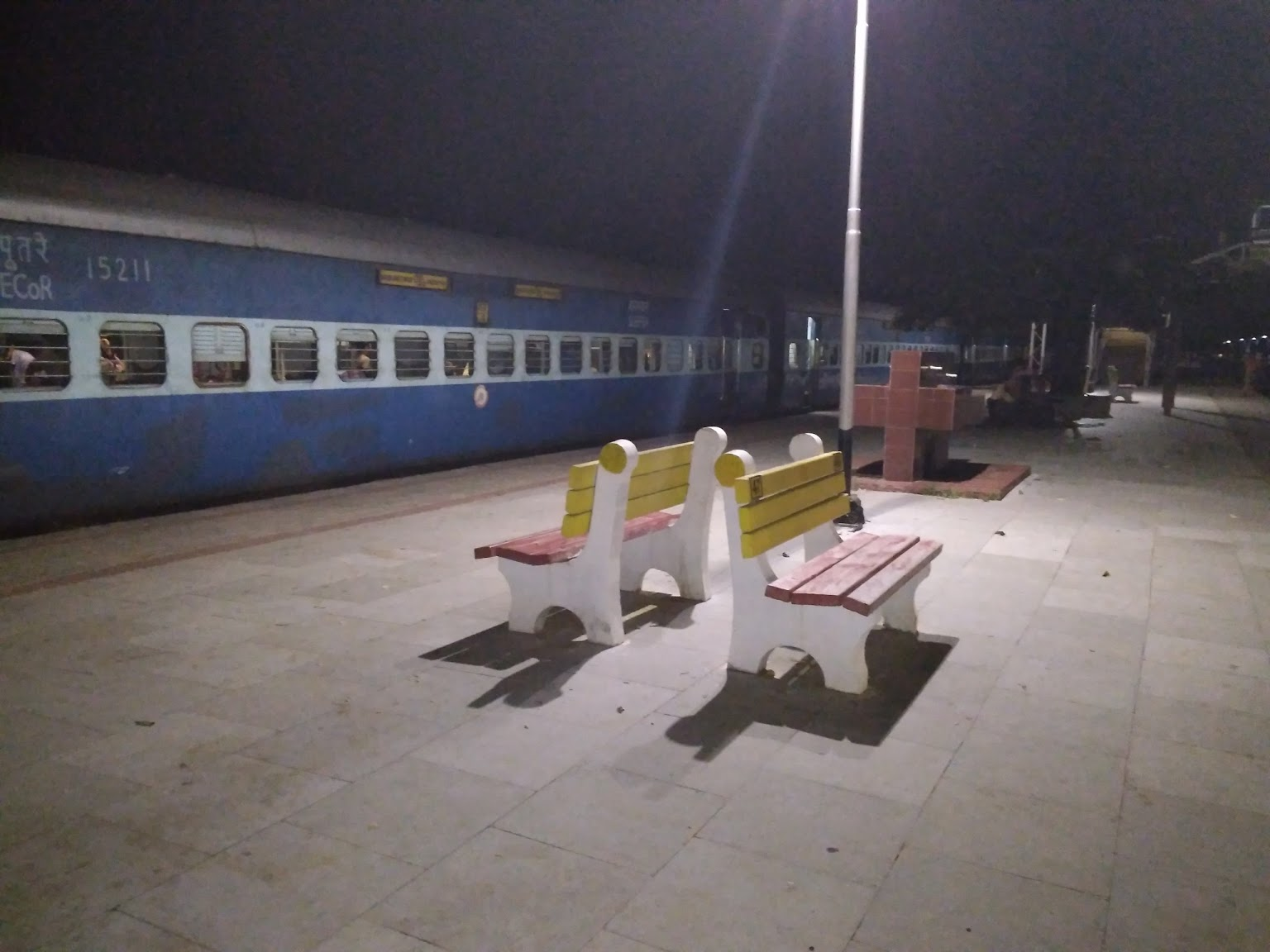 This is the Picture of Kalupara Ghat railway station